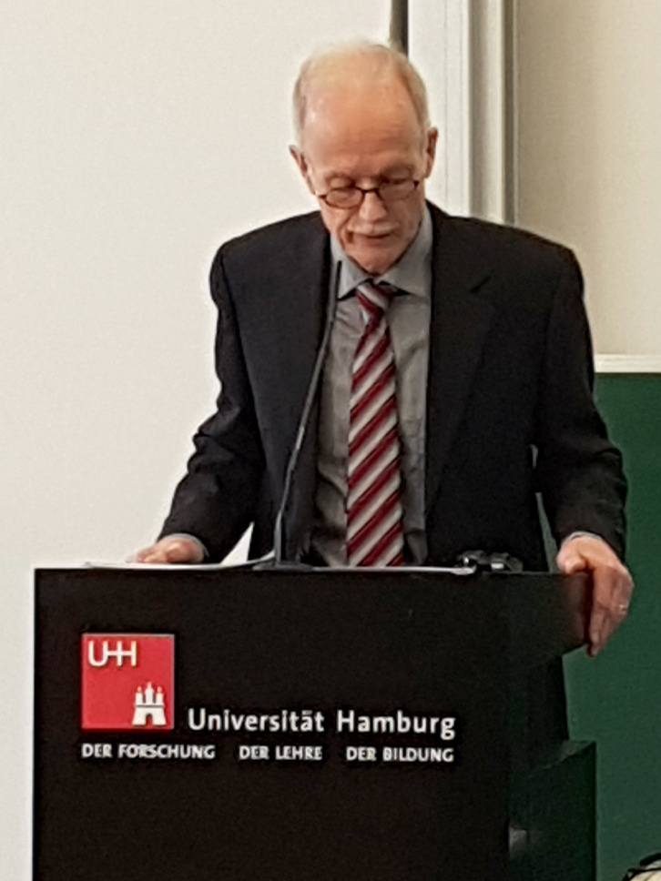 Professor Ulrich Dehn at his last lecture in Janurary 2020 in Hamburg